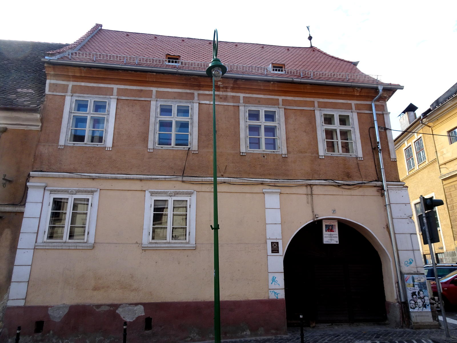 Poarta Schei street in Brasov, house number 37